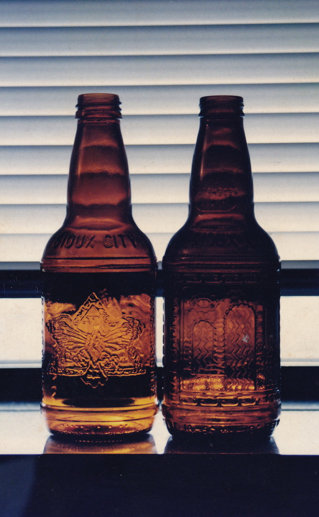 Two 1995-vintage Sioux City sarsapsilla bottles. These ornate glass bottles devoid of any paper labels were sold for decades by Sioux City.